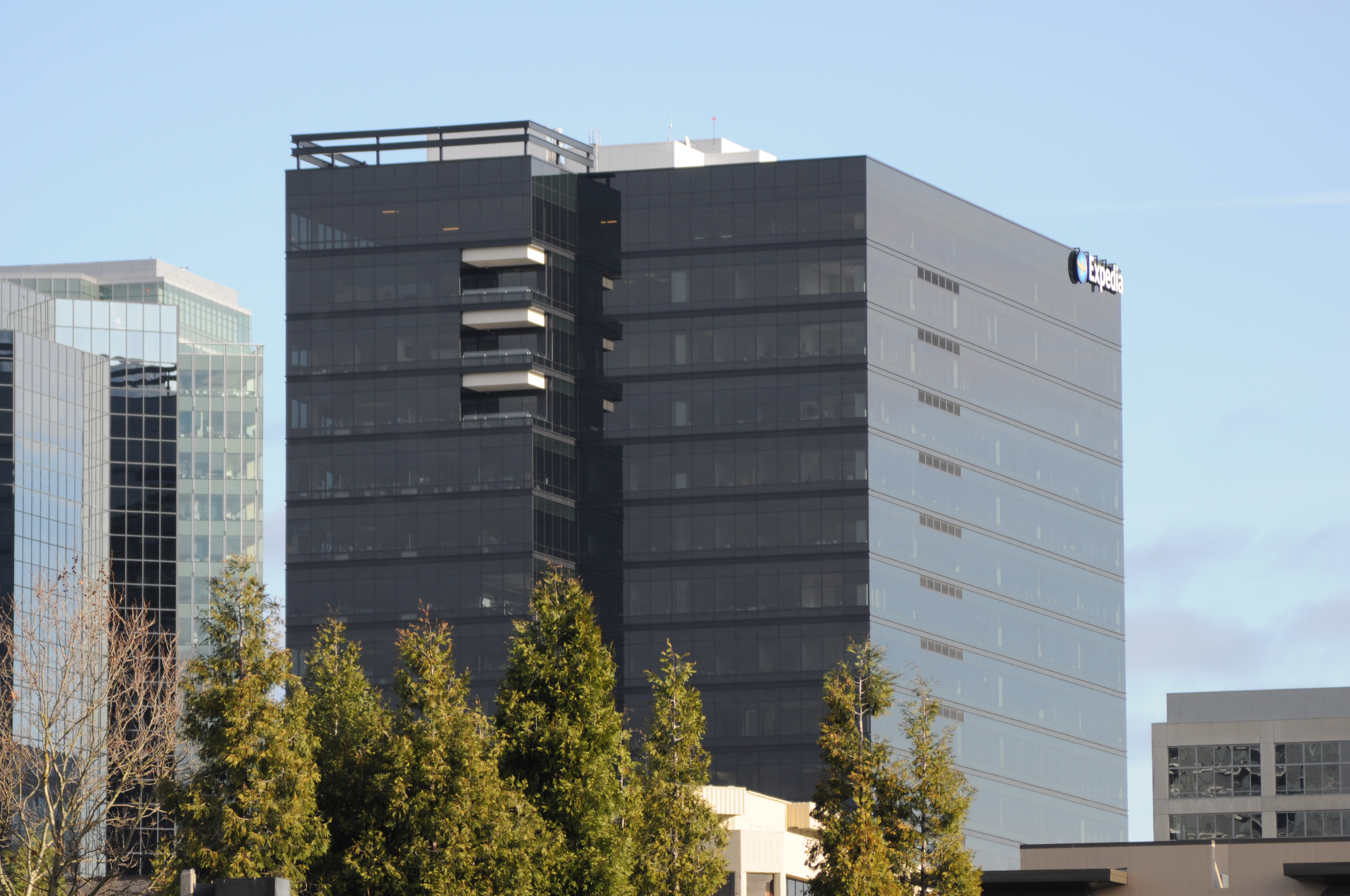 Expedia Building, Bellevue, Washington, seen from Downtown Park.